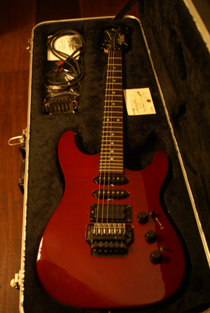 Author: George Garinis Source: This photo was made by George Garinis